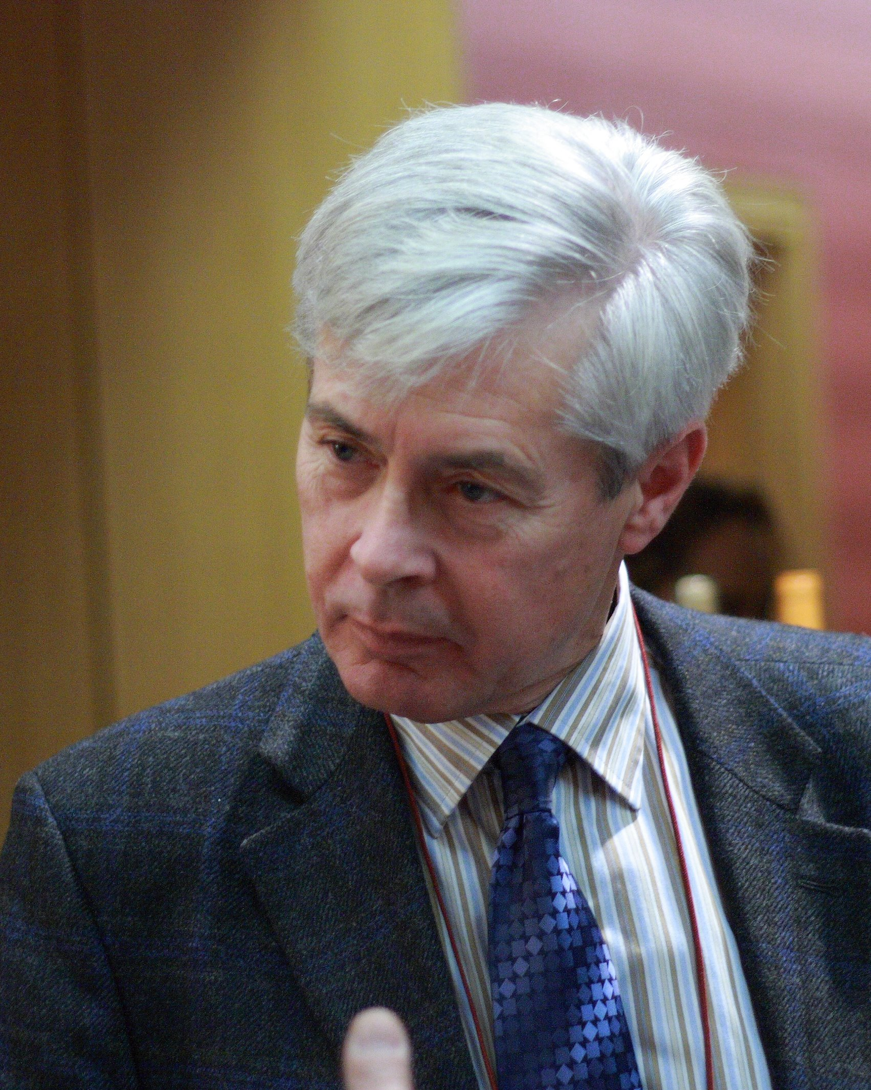 Historian of science Peter J. Bowler, at the 2007 History of Science Society meeting in Washington, D.C.